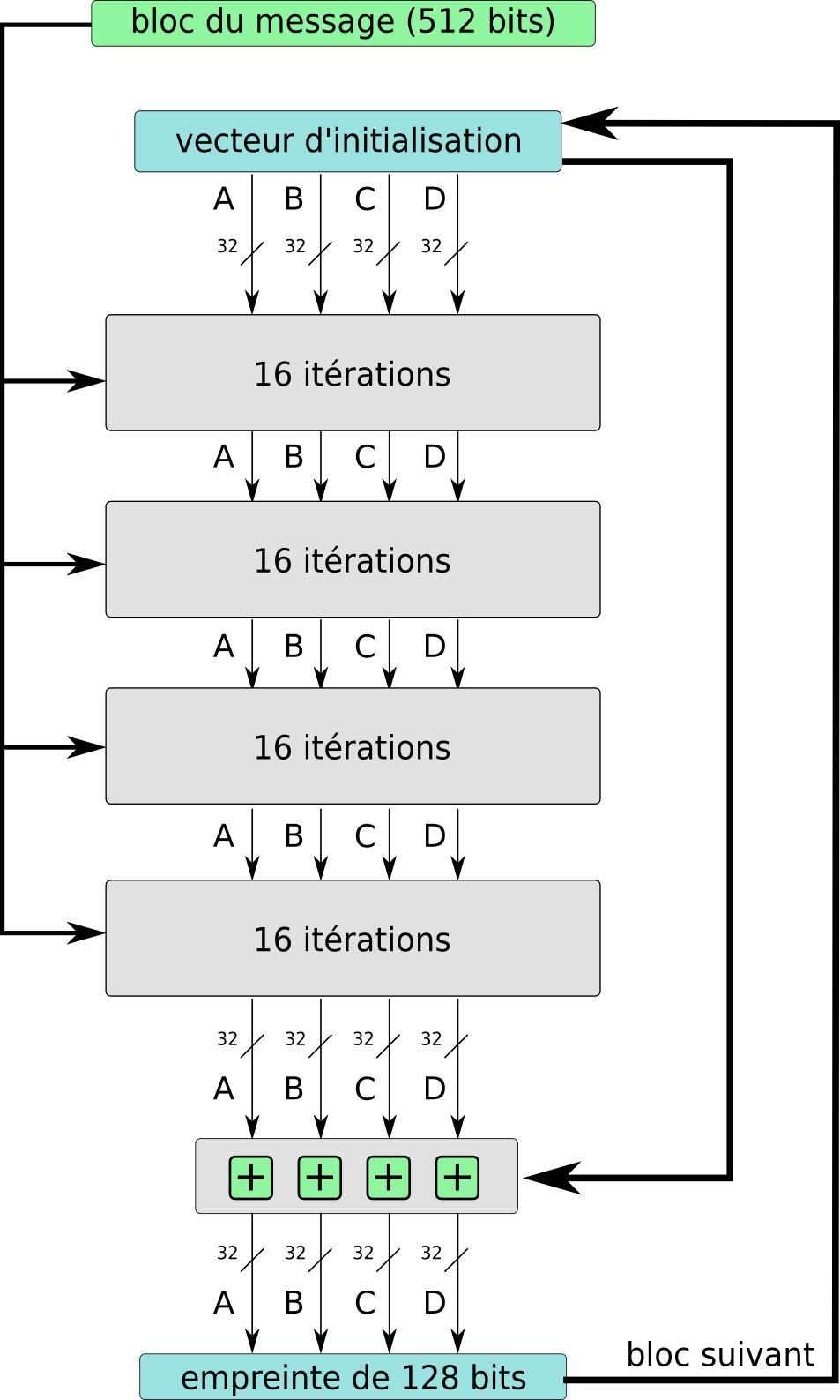 General view of MD5 hash function.